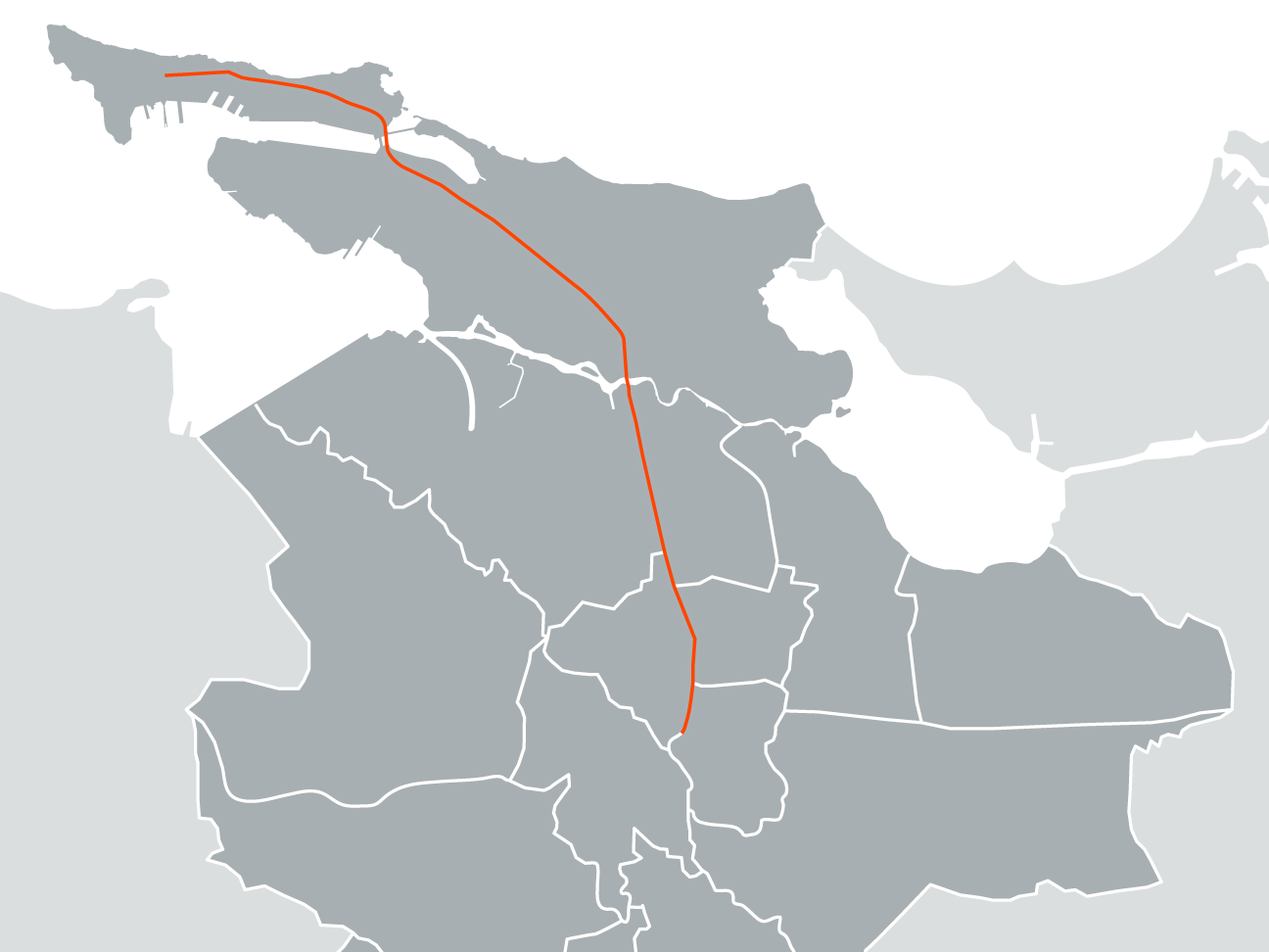 Street map of San Juan, Puerto Rico